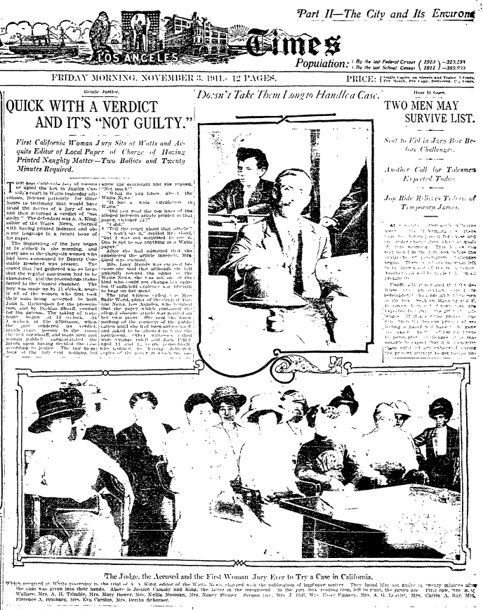 Los Angeles Times, portion of first page of second section, showing the following: Watts had the distinction of being the site of the first all-woman jury impaneled in Los Angeles County, and perhaps the state, when A.A. King, editor of the Watts News,was tried on a charge that he printed obscene and indecent language in his newspaper. Justice of the Peace Cassidy ordered 36 women who lived in San Antonio Township to report for service. They all reported as scheduled. At trial, the testimony was that one of the Watts city council members had vociferously used indecent and obscene language against King while visiting the Watts News office and that King had repeated the language in a story he wrote about the incident, not naming the councilman. The crowd that gathered in the courtroom for the trial was so large – about 100 people – that it had to be moved to the City Council chambers. The jurywomen were "Mmes. Nancy Steiner, Nellie Moomau, Mary Bower, A.H. Trimble, B.G. Wallace, Mary J. Hill, Essie Finnecy, A.D. Leavitt, Carrie A. Ray ["forewoman"], Florence Brainard, Eva F. Carolus and Bertha Scherner." They were allowed to wear their headgear during the first half of the trial, but when they returned from lunch, they were asked to remove their hats so that everybody could see they were the same women who were there in the morning. The jury was out for just twenty minutes and returned a verdict of "not guilty," to the cheers of the spectators.